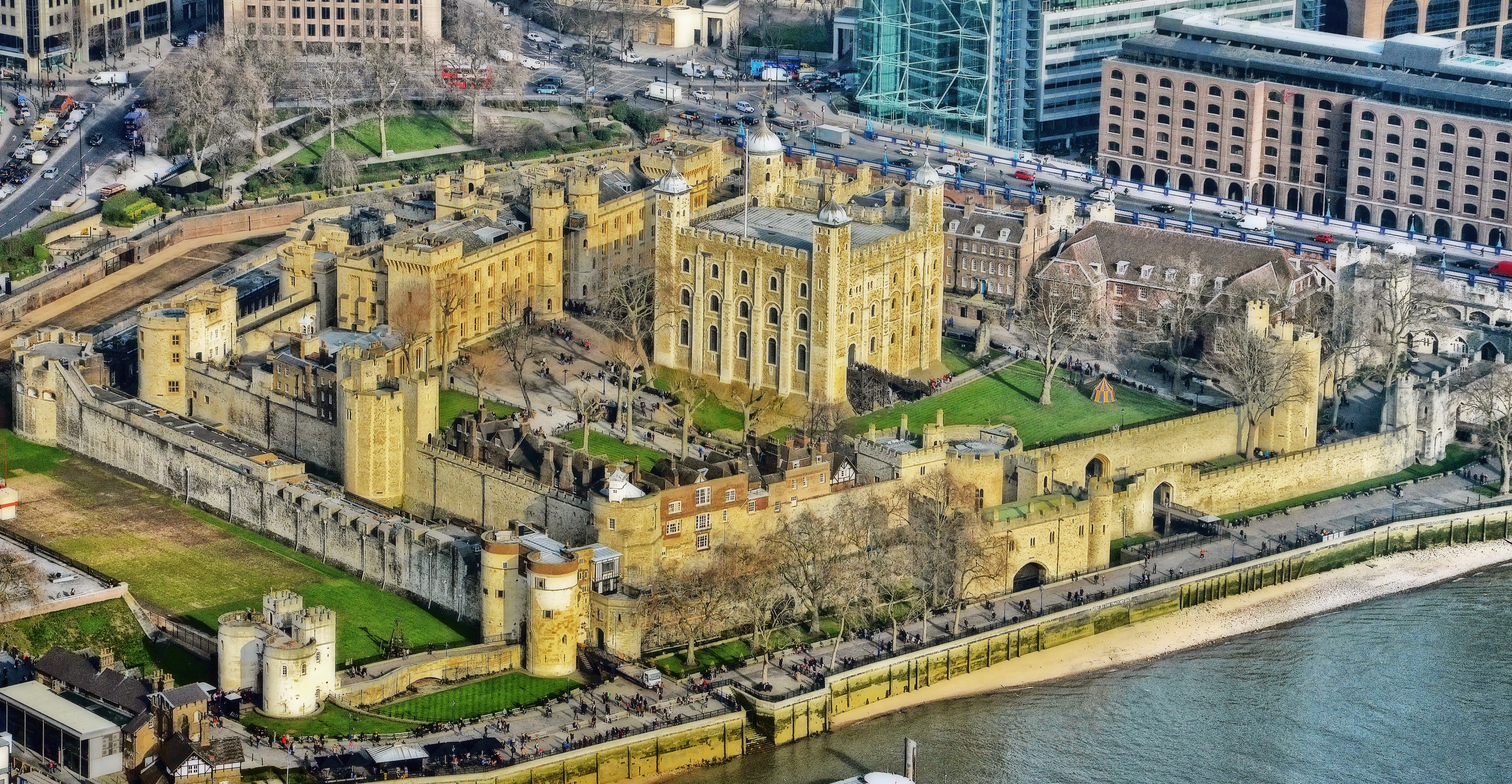 After a little processing; original taken back in February, from the Shard.